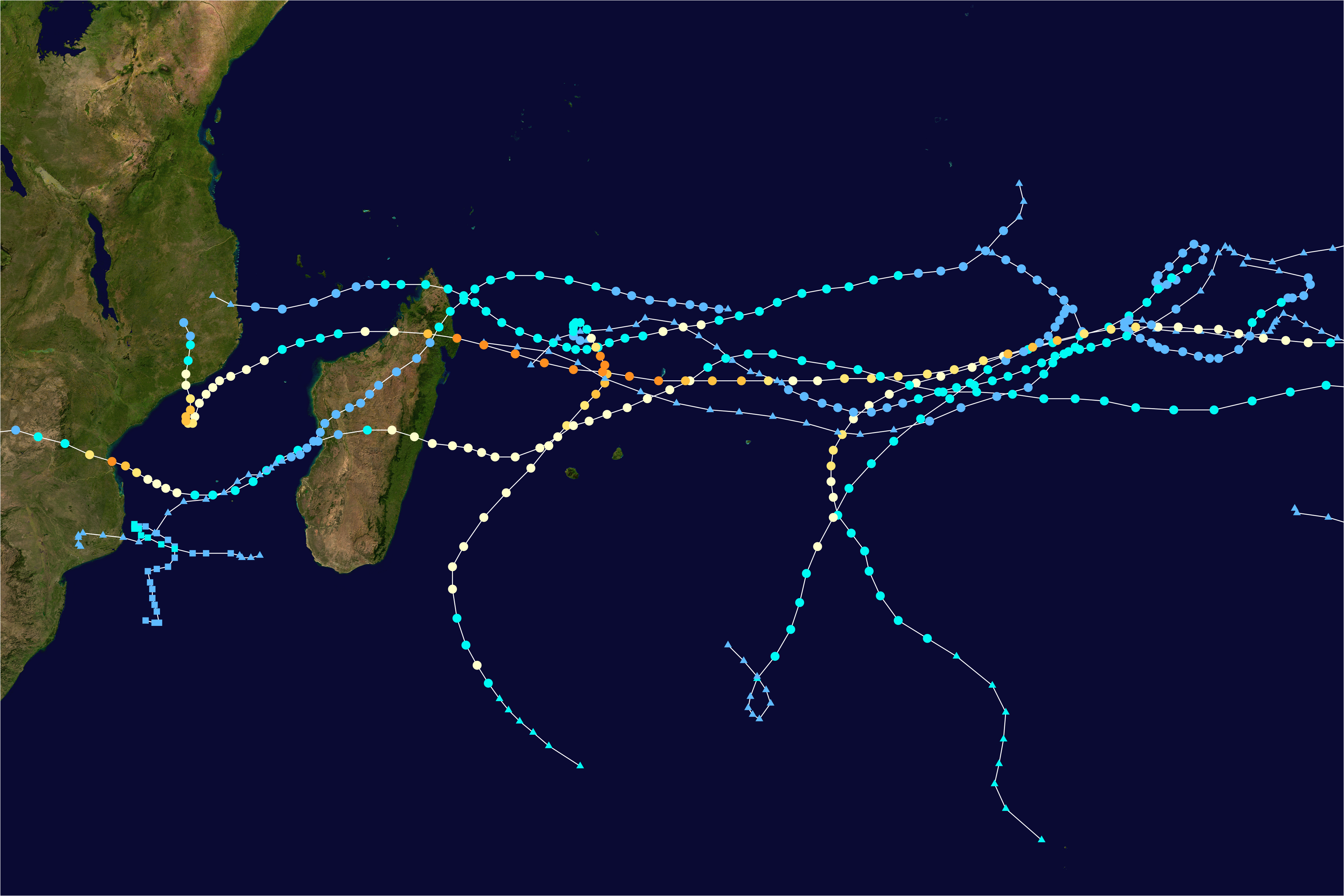 This map shows the tracks of all tropical cyclones in the 1999-2000 South-West Indian Ocean cyclone season. The points show the location of each storm at 6-hour intervals. The colour represents the storm's maximum sustained wind speeds as classified in the Saffir-Simpson Hurricane Scale (see below), and the shape of the data points represent the type of the storm. Saffir–Simpson scale Tropical depression≤38 mph≤62 km/h Category 3111–129 mph178–208 km/h Tropical storm39–73 mph63–118 km/h Category 4130–156 mph209–251 km/h Category 174–95 mph119–153 km/h Category 5≥157 mph≥252 km/h Category 296–110 mph154–177 km/h Unknown Storm type Tropical cyclone Subtropical cyclone Extratropical cyclone / Remnant low / Tropical disturbance